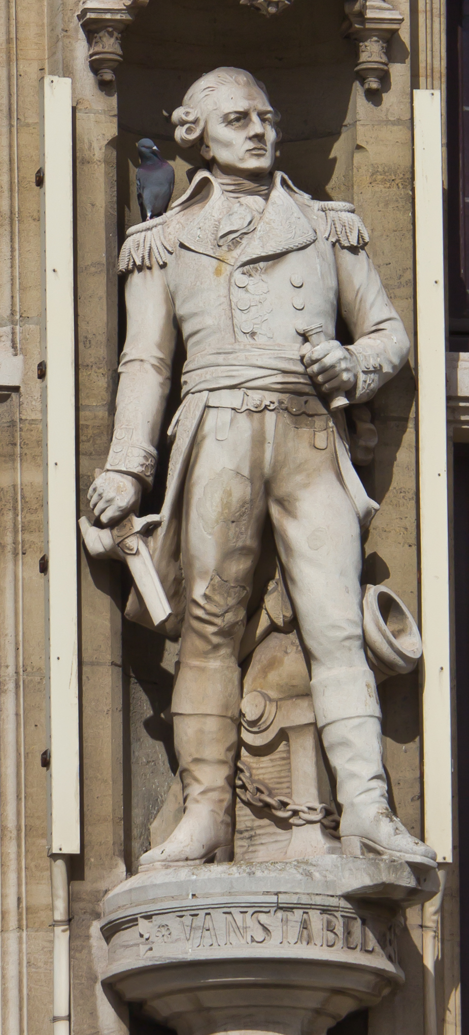 Town hall of Dunkerque - statue of Pierre Jean Van Stabel